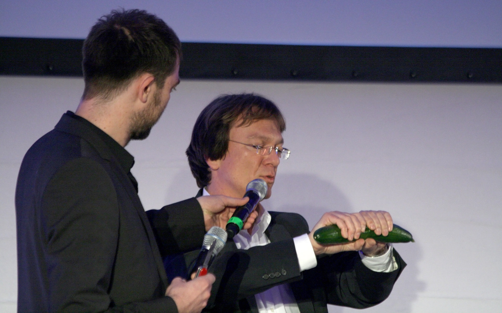 Award ceremony for the Science book of the Year, category "Natural science and technic": Michael Dietz and Holger Wormer for "Endlich Mitwisser!" (Aula der Wissenschaften, Vienna).